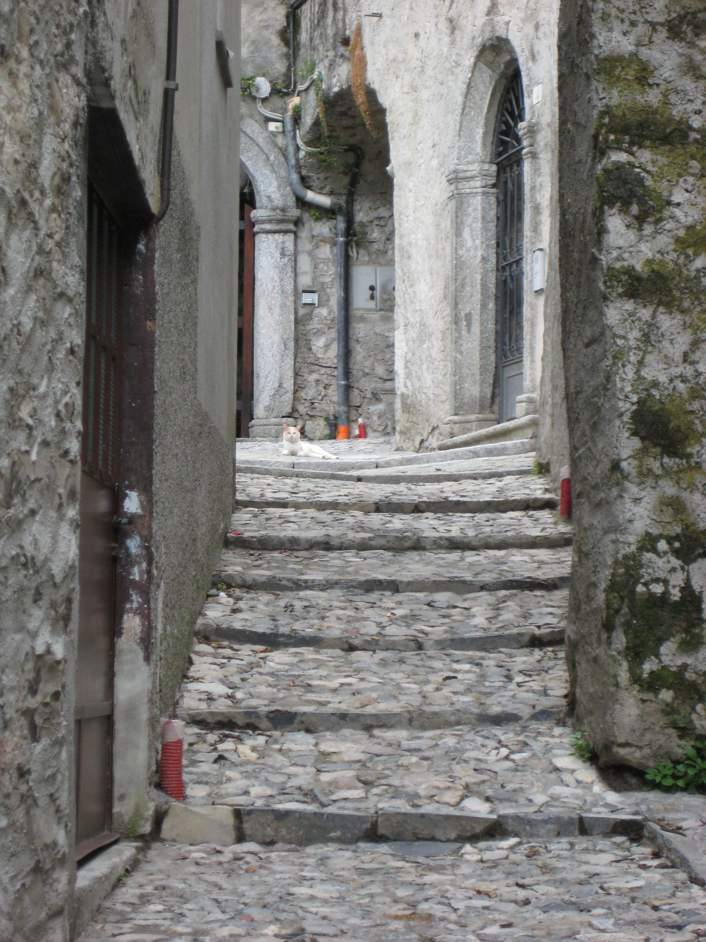 Alleyway Mezzegra at the Lake Como